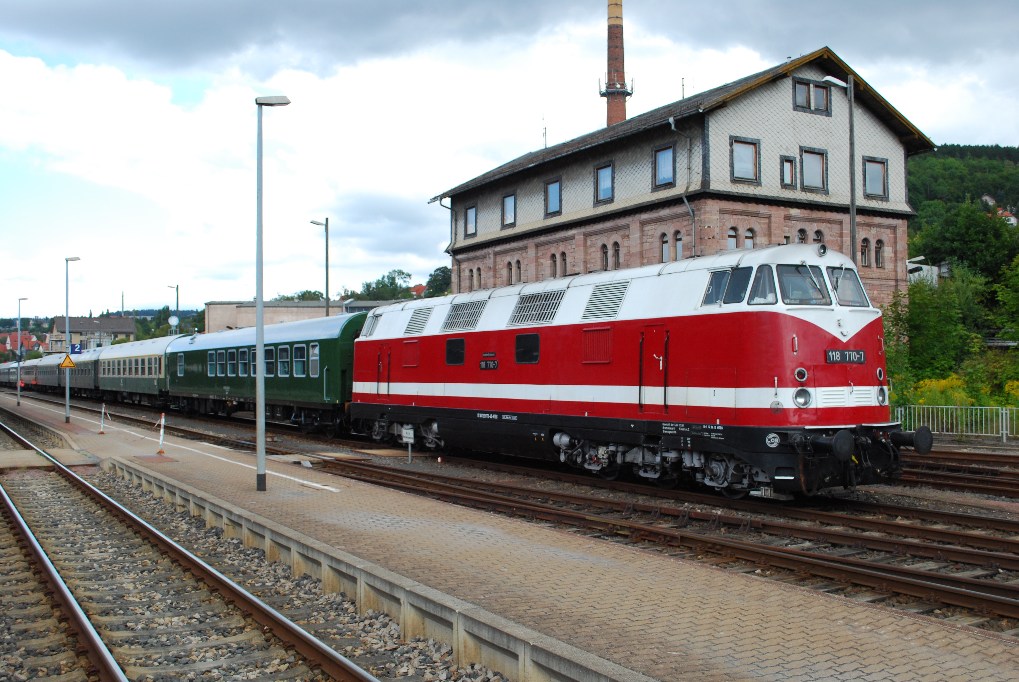 DR Class "118.7" (ex-DR Class "V180"; later DBAG Class "228.2") 2,370hp C-C No.118 770 (ex-V180 770; later DBAG No.228.770) on a special at Meingen Steam Festival, 09/12.